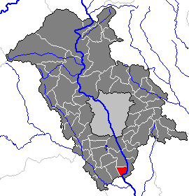 This map shows the area of the Gemeinde (municipality) Werndorf in the Bezirk (district) Graz-Umgebung, Styria, Austria.